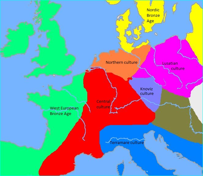 A simplified map of the central European cultures, ca 1200 BC.